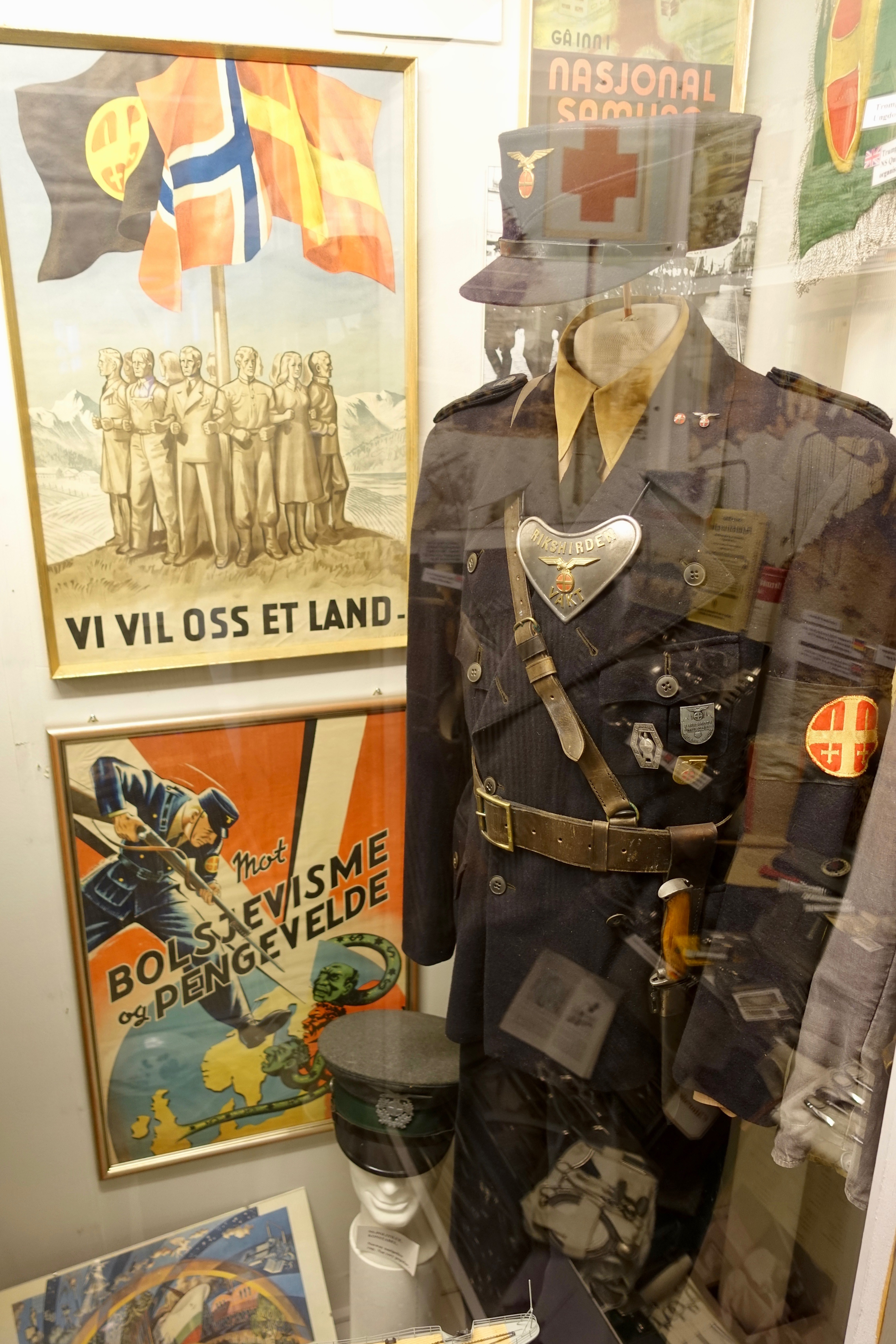 WW2 in Norway: Uniform of the Rikshirden, paramilitary organization of the Nasjonal Samling (NS, Norwegian Nazi party): Gorget ("vaktskilt"), "Frontkjempermerket" (for Norwegian volunteers in Waffen-SS), "Nasjonal Samling 8. riksmøte 25.-27. sept. 1942", "Nasjonal Samling Hafrsfjord 28. juli 1935", armlet with Hirden emblem (suncross with swords), gorget ("vaktskilt"), dagger, etc. Also NS propaganda posters, Statspolitiet police visor cap, etc. Photo taken on 8 May 2019 at Lofoten War Memorial Museum (Lofoten Krigsminnemuseum) in Svolvær, Norway. The museum exhibits uniforms, militaria, smaller items, memorabilia, etc. from World War II and the German occupation of Norway 1940–1945.